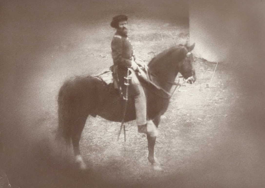 Alternative (and clearer) image of Capt. Mathew Simpson Clegg of the 5th Indiana Cavalry Regiment, Co. M